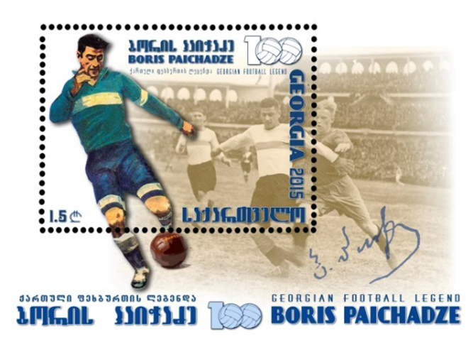 Stamp of Georgia - Boris Paichadze